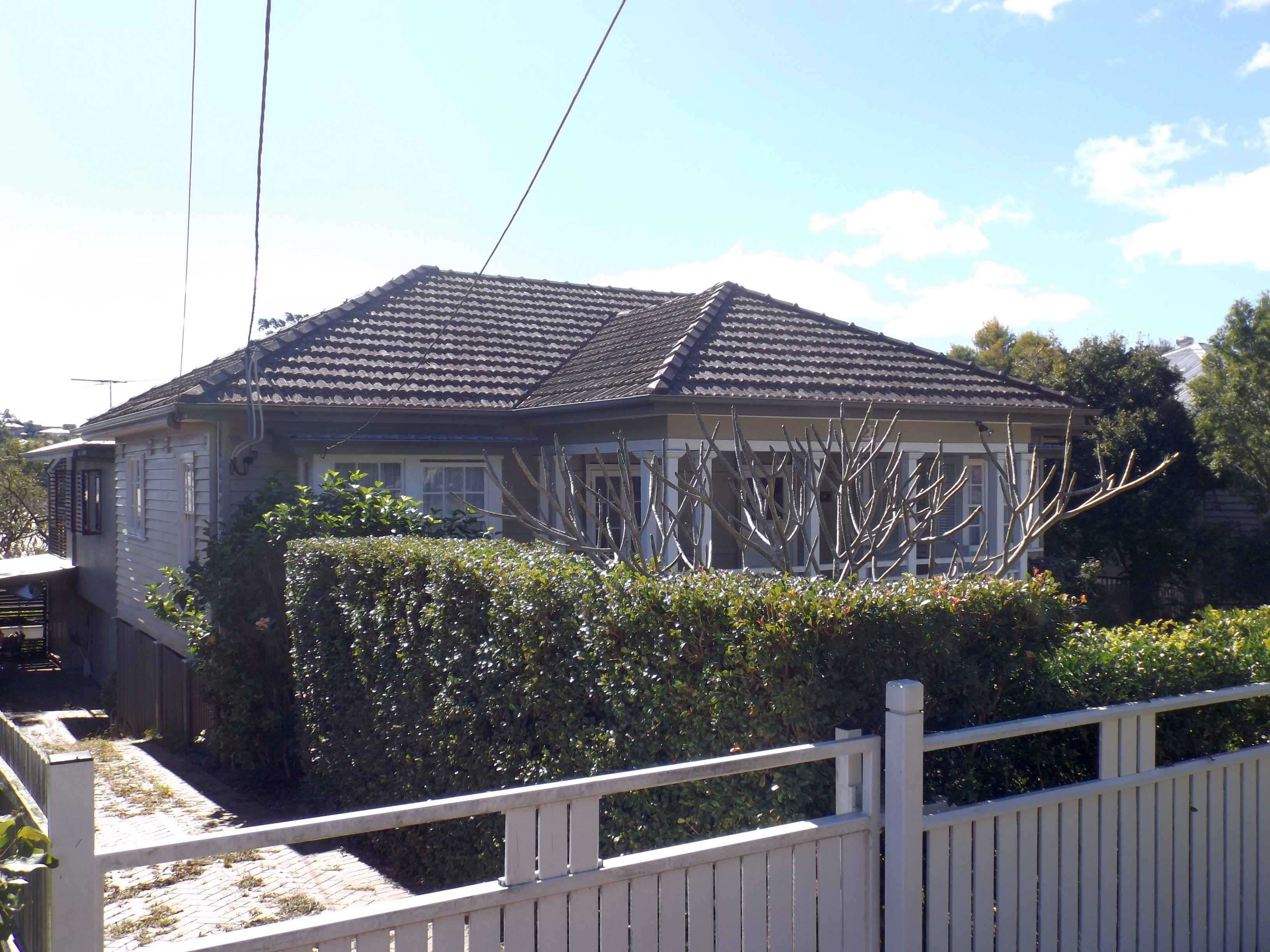 Photo of Uanda residence in Wilston, Brisbane, Queensland, Australia.